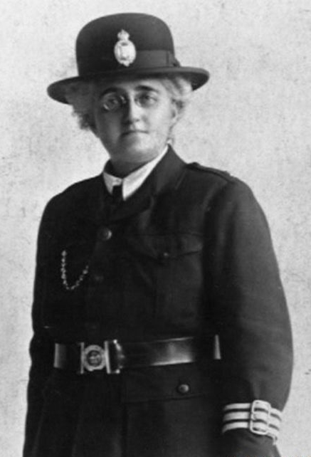 Edith Smith, the first warranted policewoman in the United Kingdom seen in her uniform